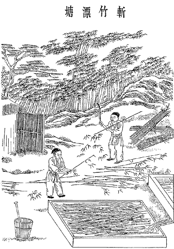 An image of a Ming dynasty woodcut describing five major steps in ancient Chinese papermaking process as outlined by Cai Lun in 105 AD